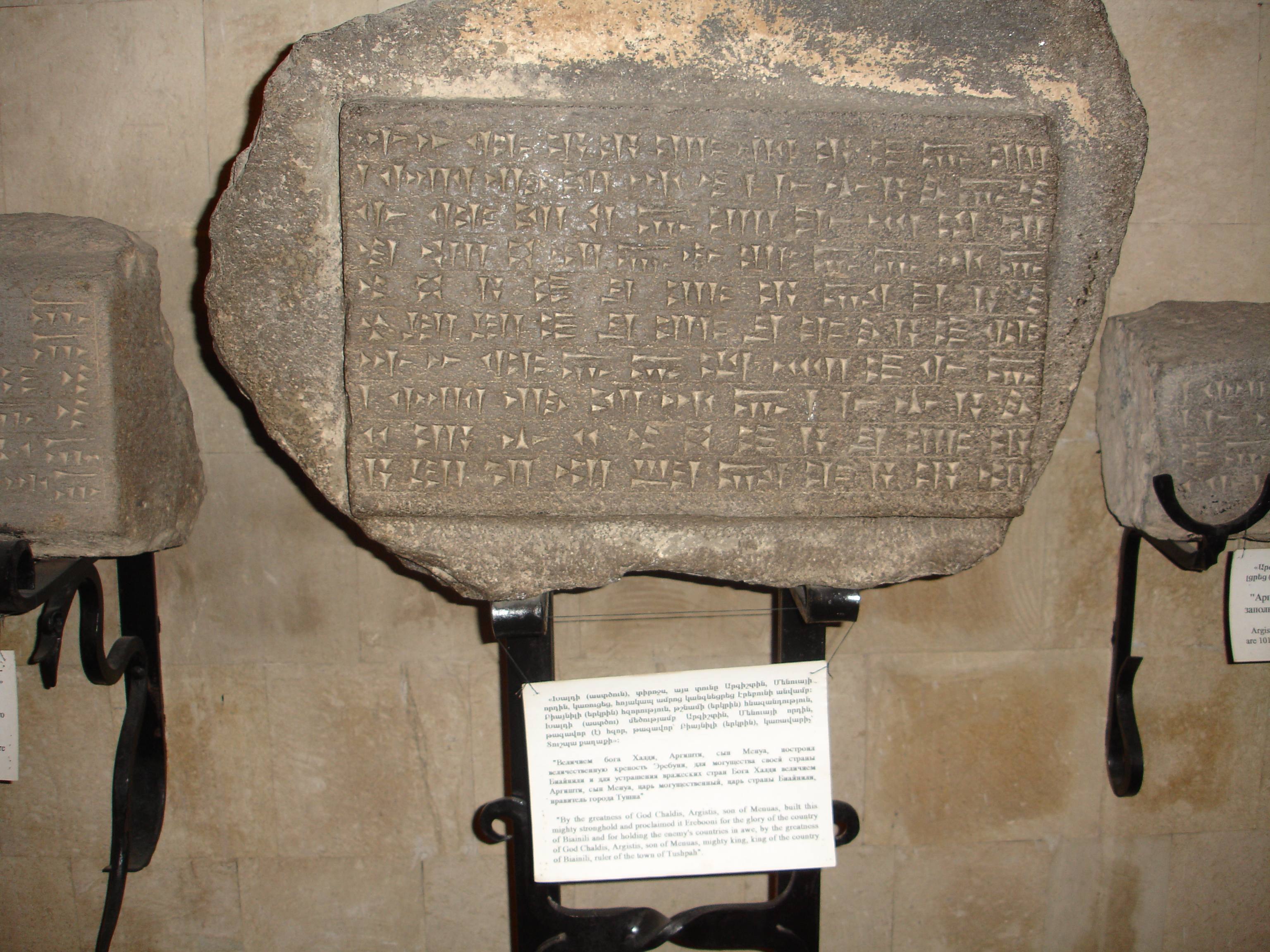 Erebuni museum, Yerevan, Armenia. Photo taken by gegman. Text under the tablet translate the writing as follow : "By the greatness of Gold Chaldis, Argistis, son of Menuas, built this mighty stronghold and proclaimed it Erebooni for the glory of the country of Biainili and for holding the enemy's countries in awe, by the greatness of God Chaldis, Argistis, son of Menuas, mighty king, king of the country or Biainili, ruler of the town of Tushpah."